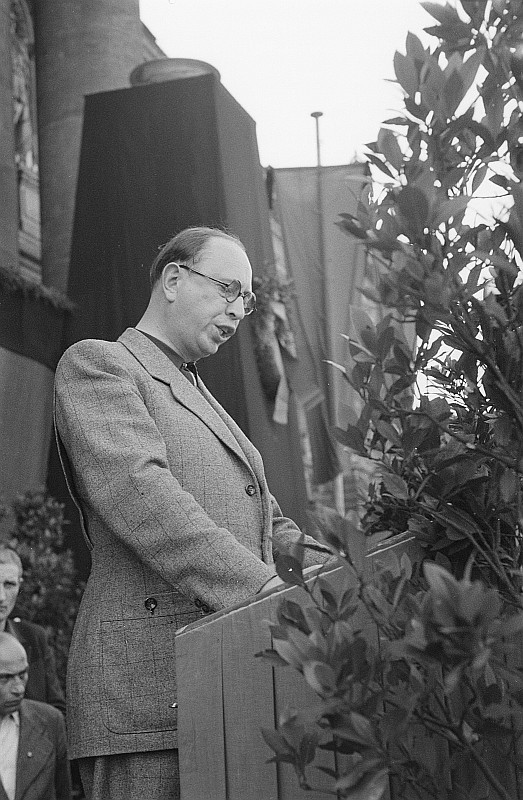 Black and white photograph of german politician Horst Sindermann taken 1949 in Leipzing during a commemoration ceremony.